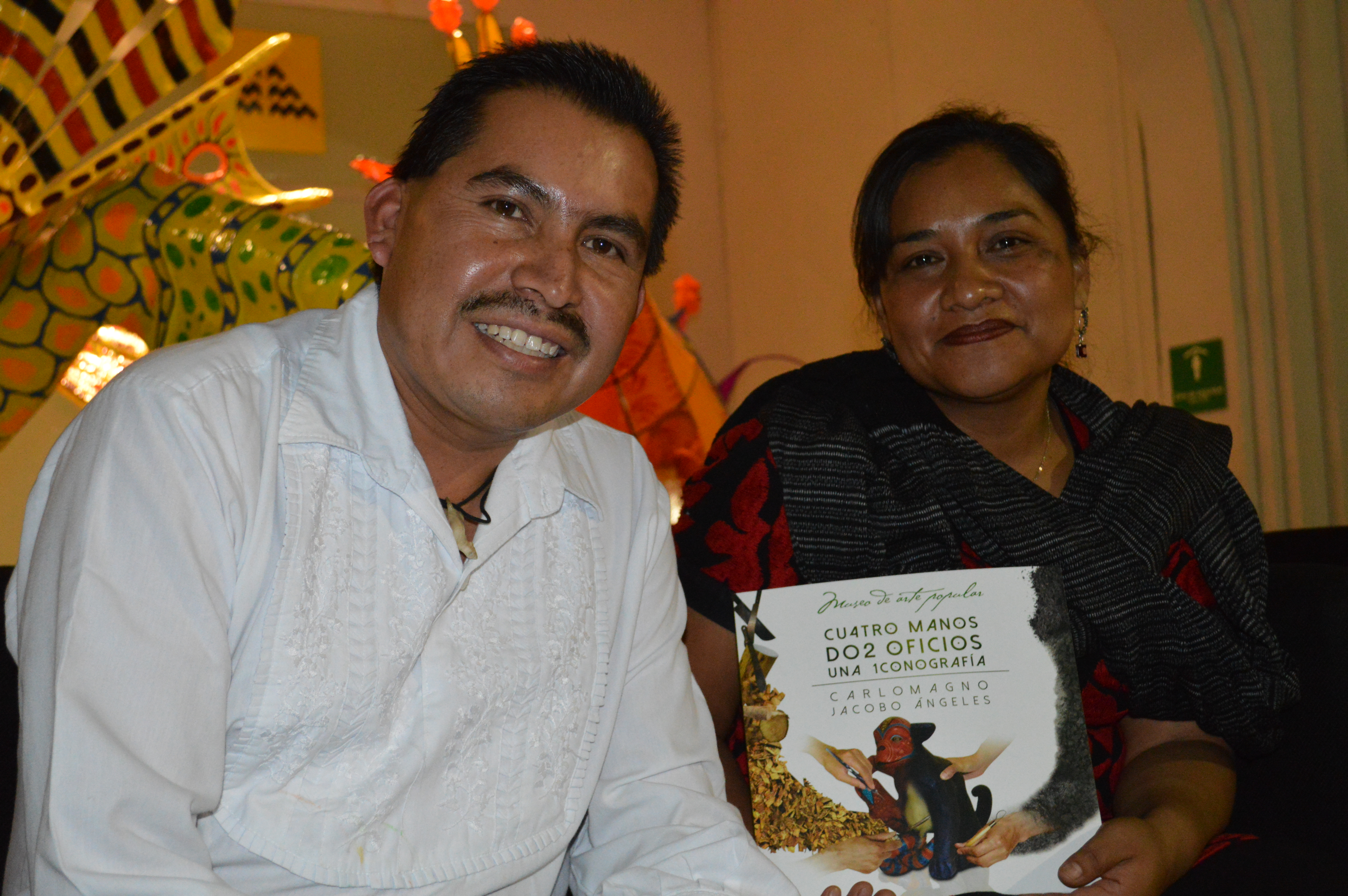 Jacobo Angeles and wife at the presentation of Cu4atro Manos, Do2 Oficios, Una 1conografía at the Museo de Arte Popular in Mexico City